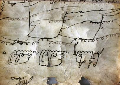 Royal charter of King Alexander II of Imereti